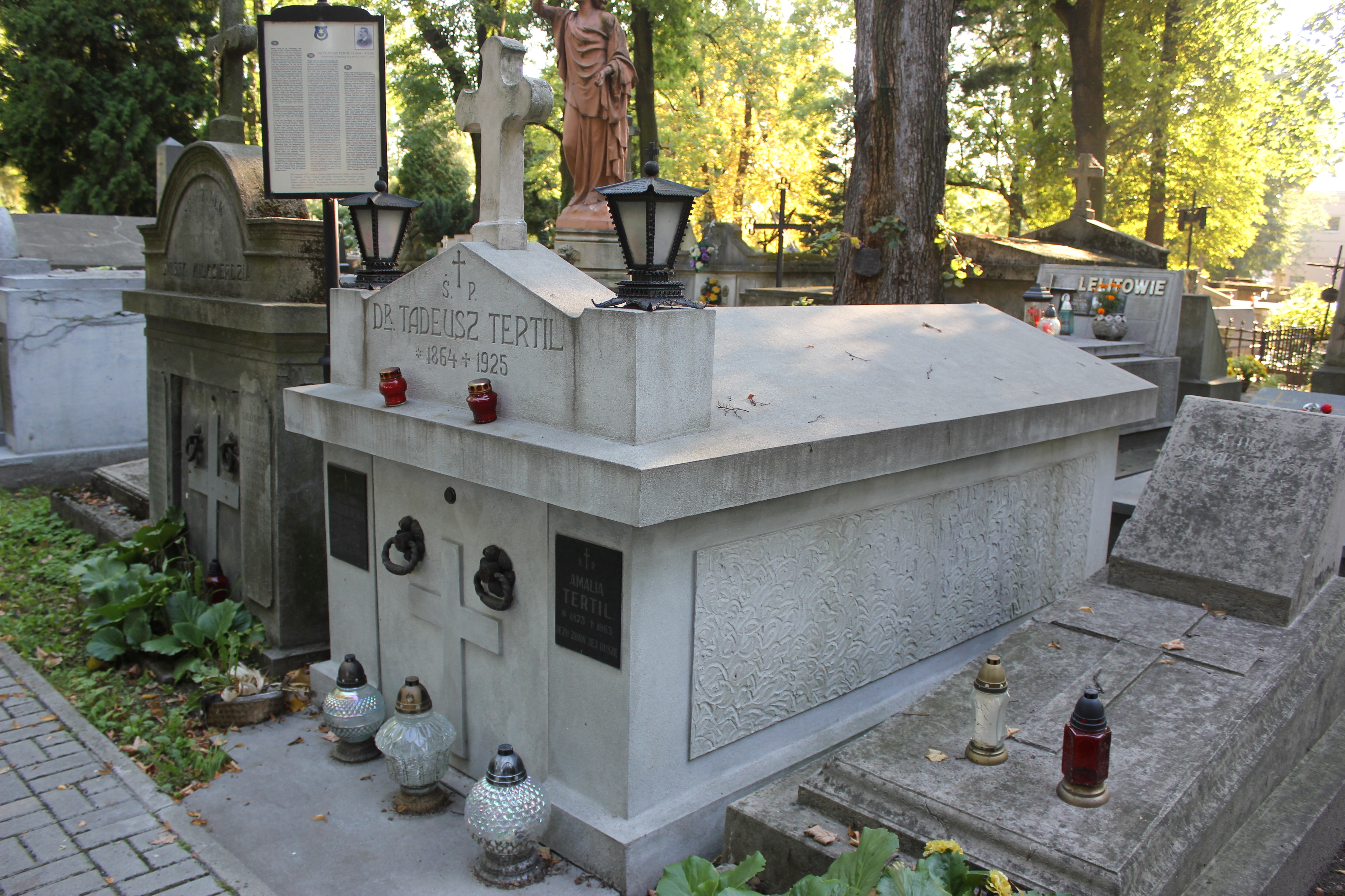 Tarnów - Old Cemetery - Tadeusz Tertil tomb